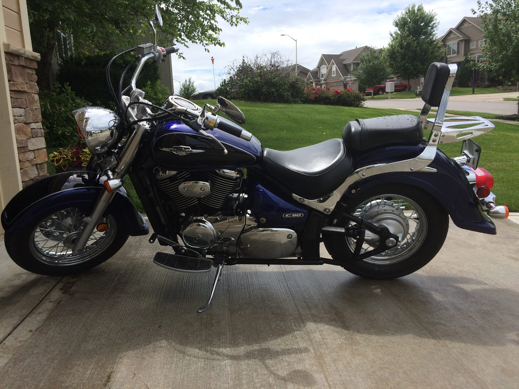 This is a stock Suzuki Boulevard C50 from 2005.